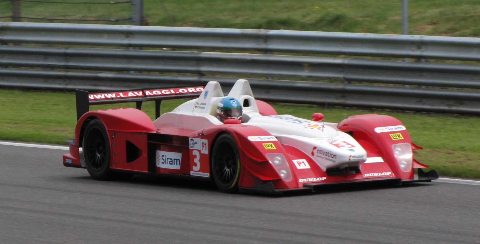 Giovanni Lavaggi driving his self designed Lavaggi LS1 in Spa 2009.